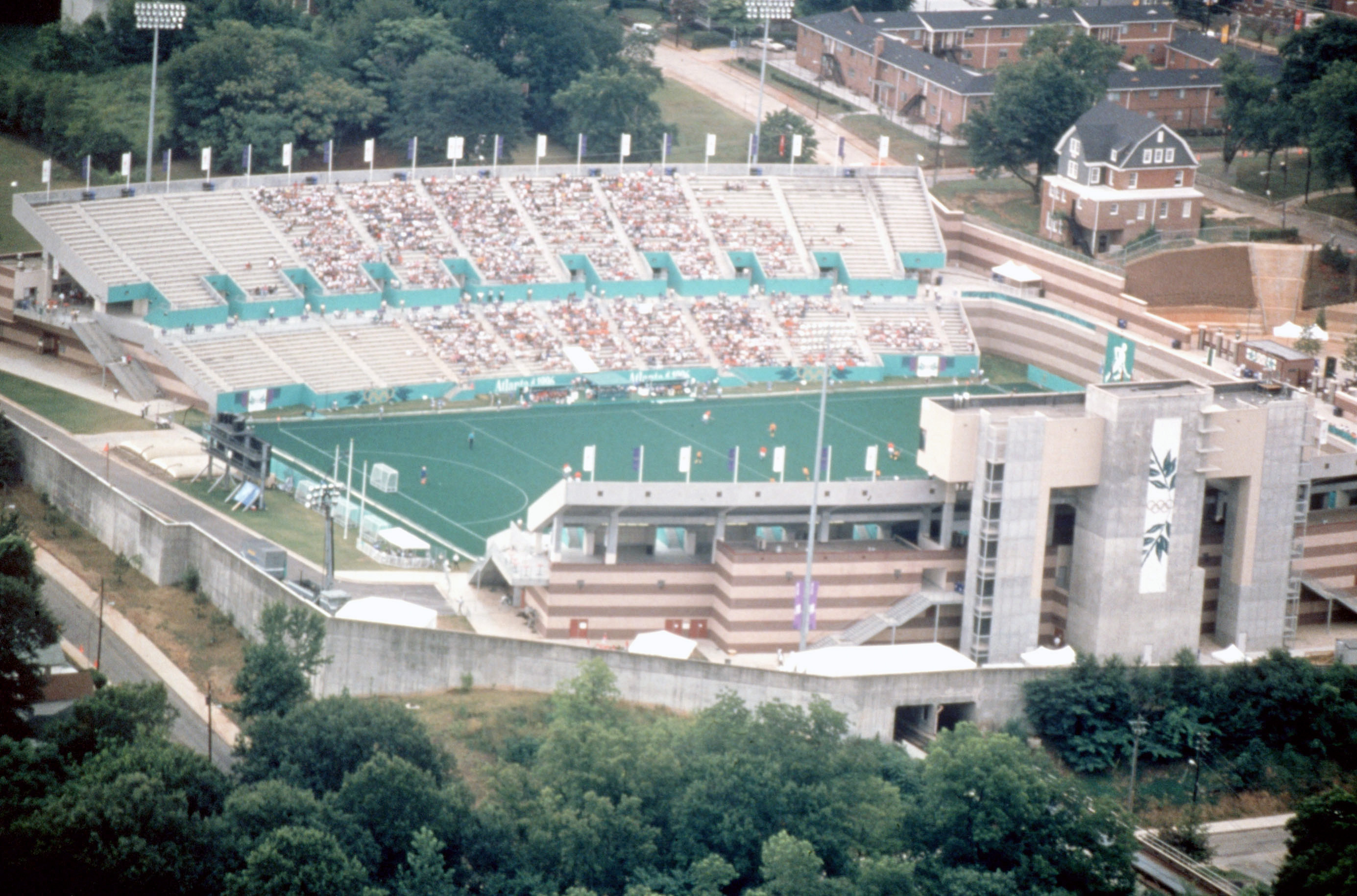 The Morris Brown College Stadium in which the Field-Hockeycompetitions were held during the 1996 Summer Olympics.